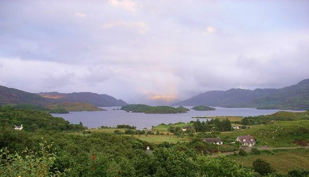 Only half a mile from the sea, Loch Morar is the deepest lake in Britain, over 1000 feet in places. It also is said to be home to a monster named Morag.